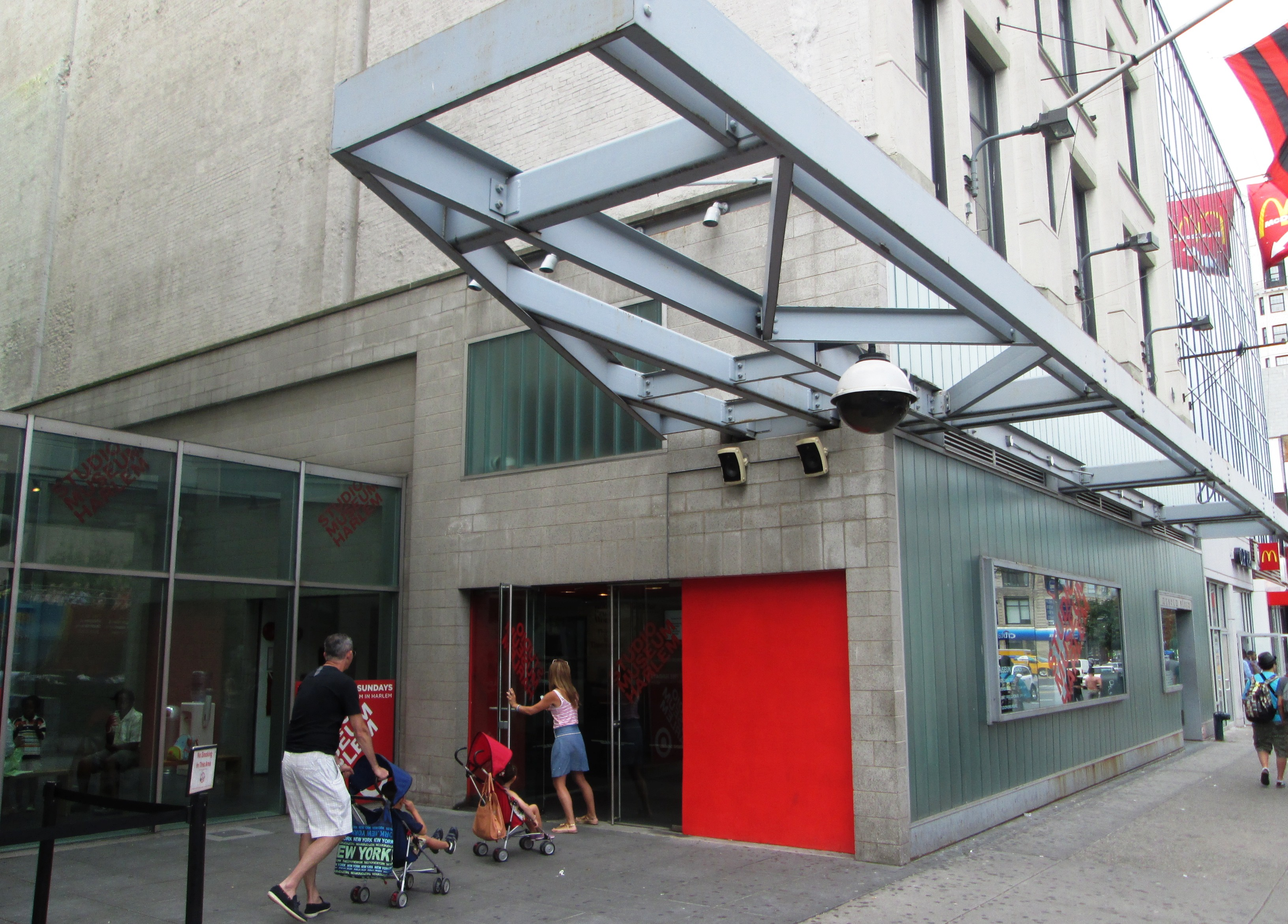 The Studio Museum in Harlem at 144 West 125th Street between Adam Clayton Powell Jr. Boulevard and Lenox Avenue in the Harlem neighborhood of Manhattan, New York City, was founded in 1968 and was the first museum in the U.S. devoted to the art of African-Americans. It specializes in 19th and 20th century art as well the work of artists of African descent.